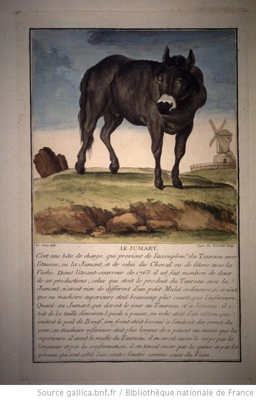 Illustration of an hybrid of an horse and a cow in 1776